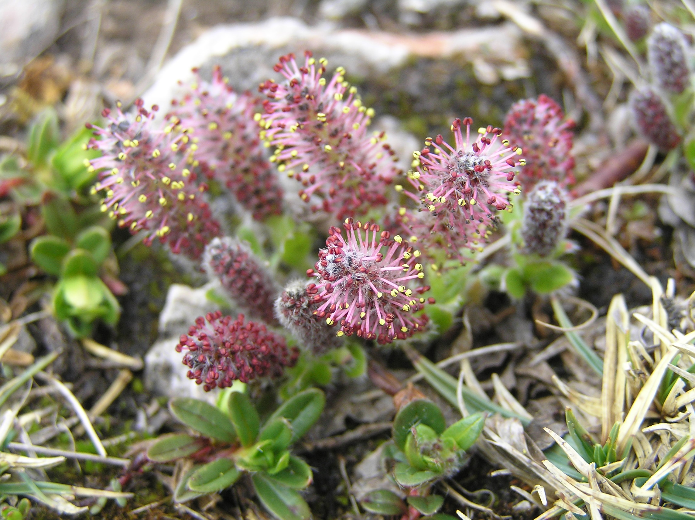 Salix alpina, Austria, Apls, the mountain Schneeberg near Wiener Neustadt